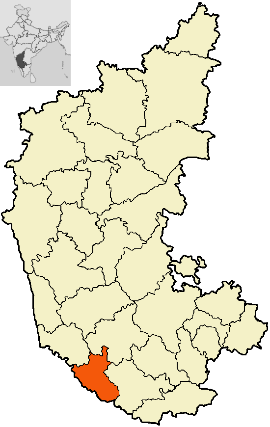 Locator map of Kodagu district, Karnataka, India